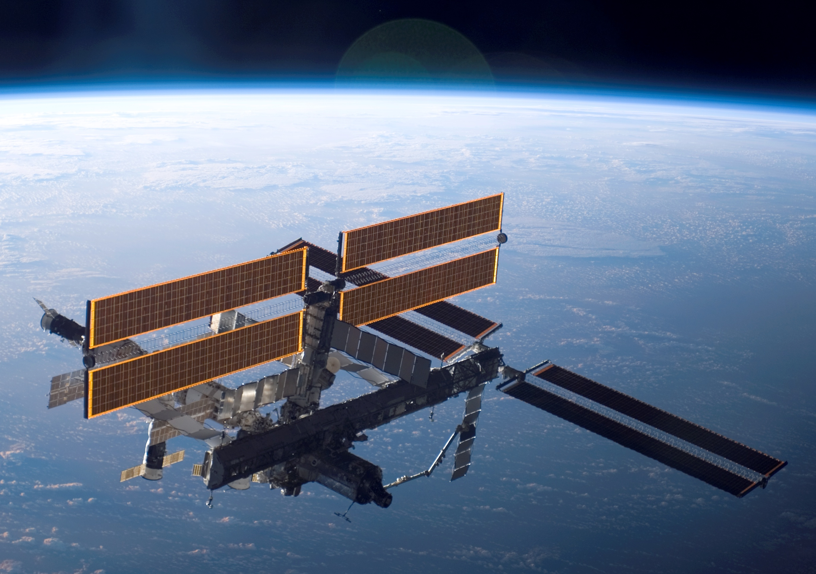 S115-E-06767 (17 Sept. 2006) --- This view of the International Space Station, backdropped against a blue and white Earth, was taken shortly after the Space Shuttle Atlantis undocked from the orbital outpost at 7:50 a.m. CDT. The unlinking completed six days, two hours and two minutes of joint operations with the station crew. Atlantis left the station with a new, second pair of 240-foot solar wings, attached to a new 17.5-ton section of truss with batteries, electronics and a giant rotating joint. The new solar arrays eventually will double the station's onboard power when their electrical systems are brought online during the next shuttle flight, planned for launch in December.